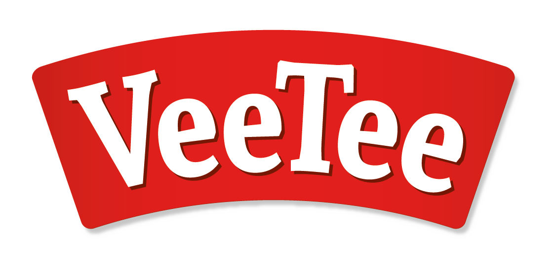 veetee rice logo